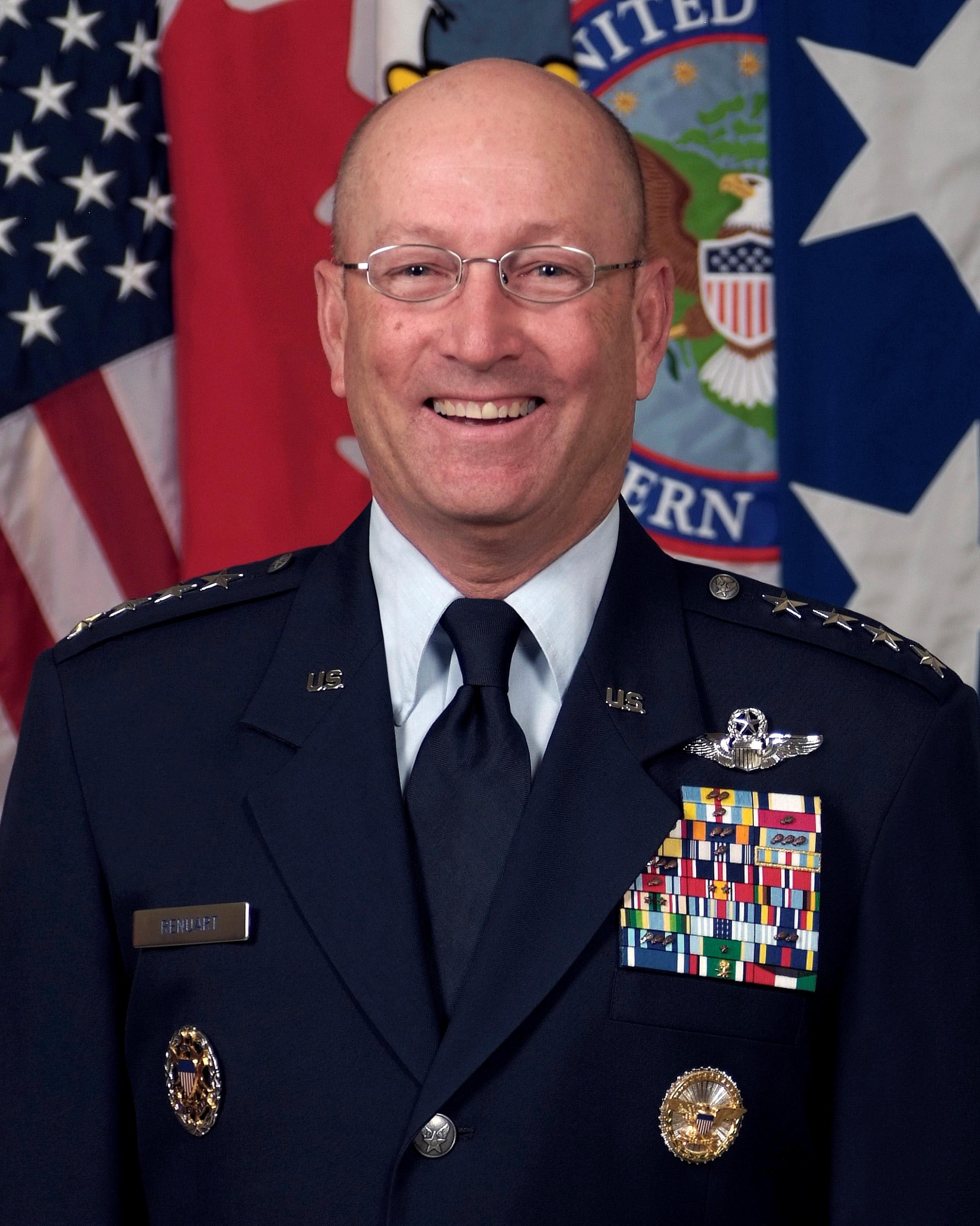 Official portrait of Gen. Renuart